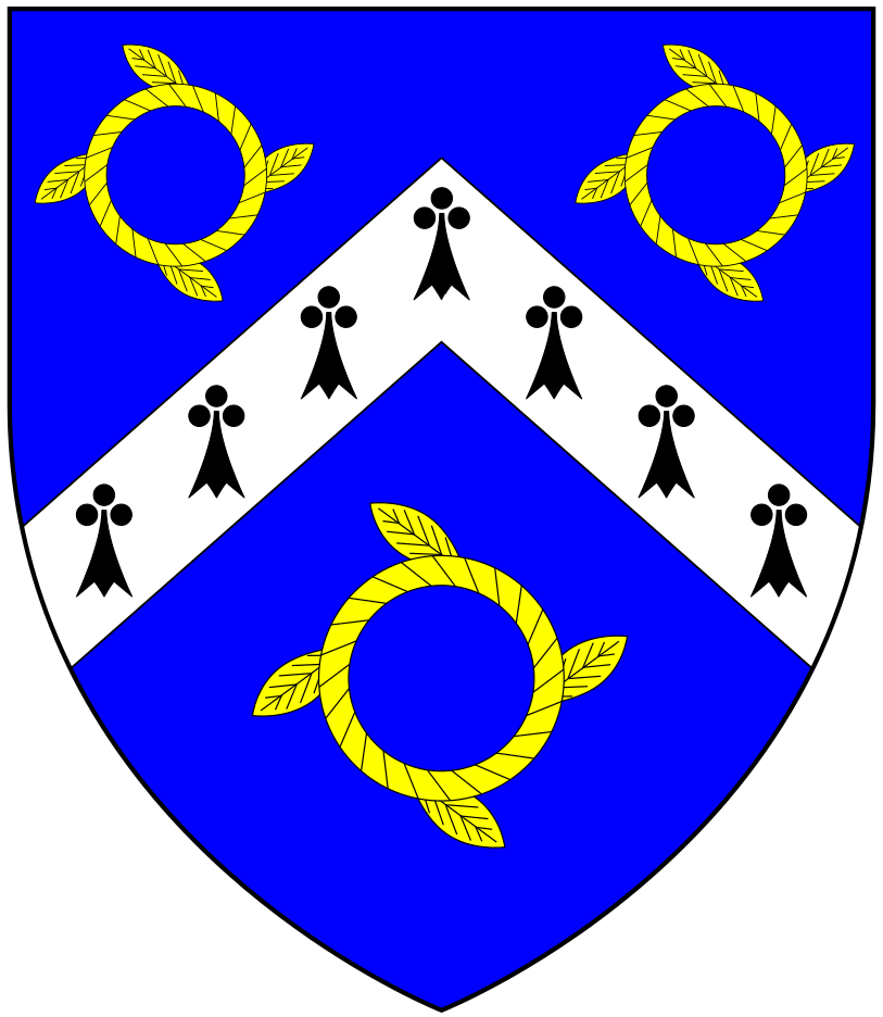 Arms of Clotworthy of Clotworthy in the parish of Wembworthy, Devon: Azure, a chevron ermine between three chaplets or. (Vivian, Lt.Col. J.L., (Ed.) The Visitations of the County of Devon: Comprising the Heralds' Visitations of 1531, 1564 & 1620, Exeter, 1895, p.203). Chaplets depicted as seen on two Clotworthy monuments in Wembworthy Church